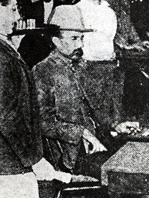 James B Miller, Outlaw